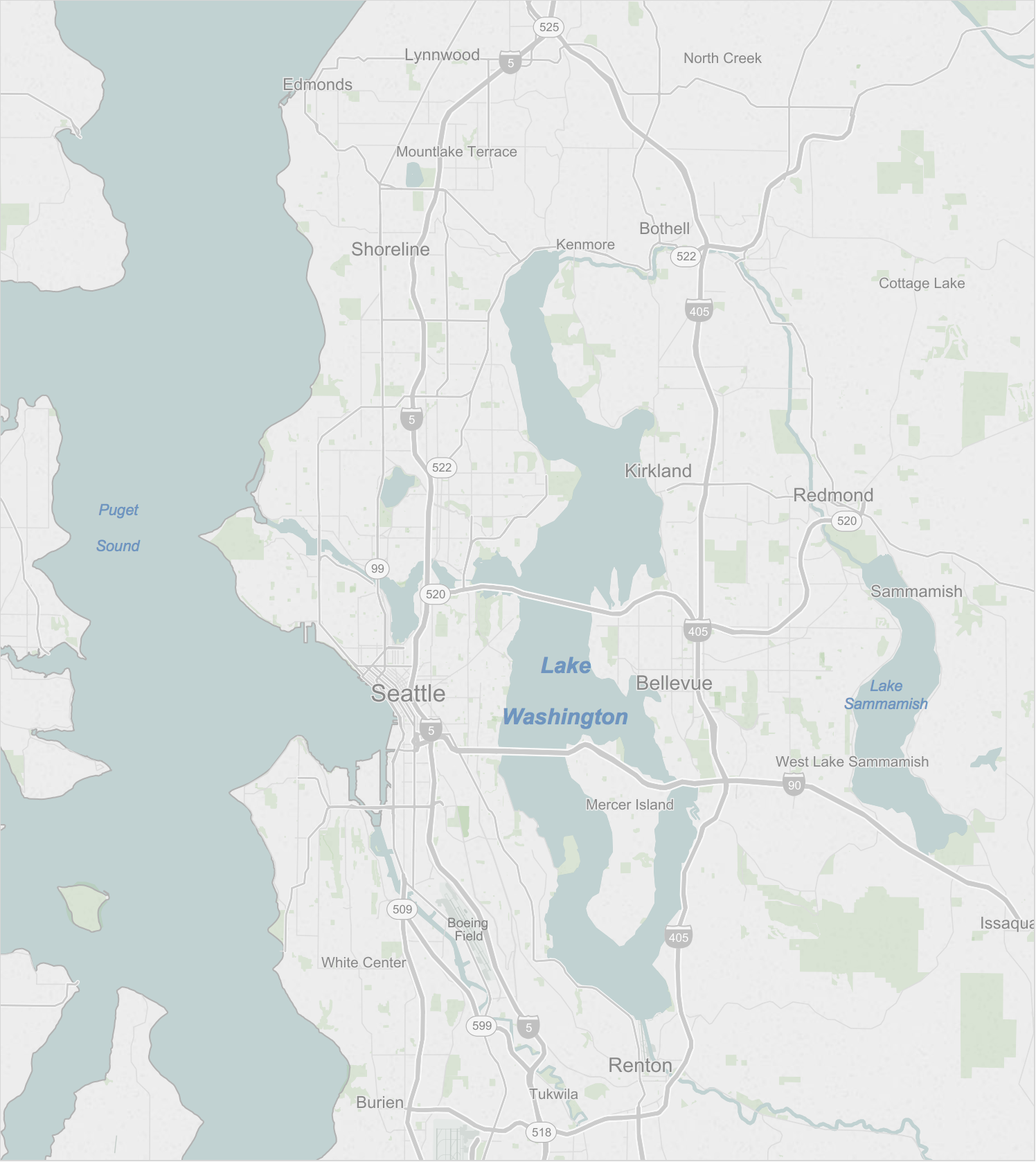 Map of Lake Washington and surrounding cities